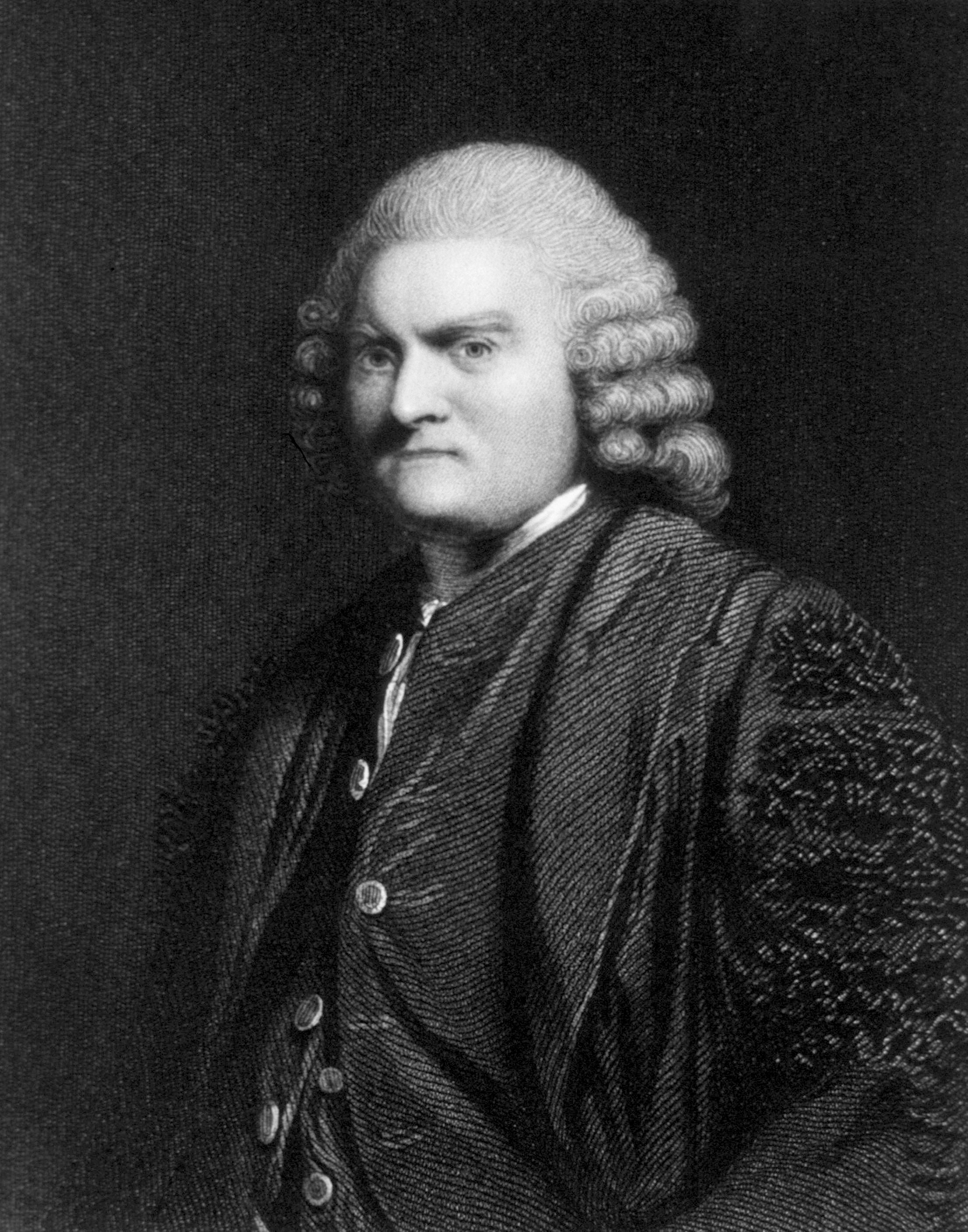 From here